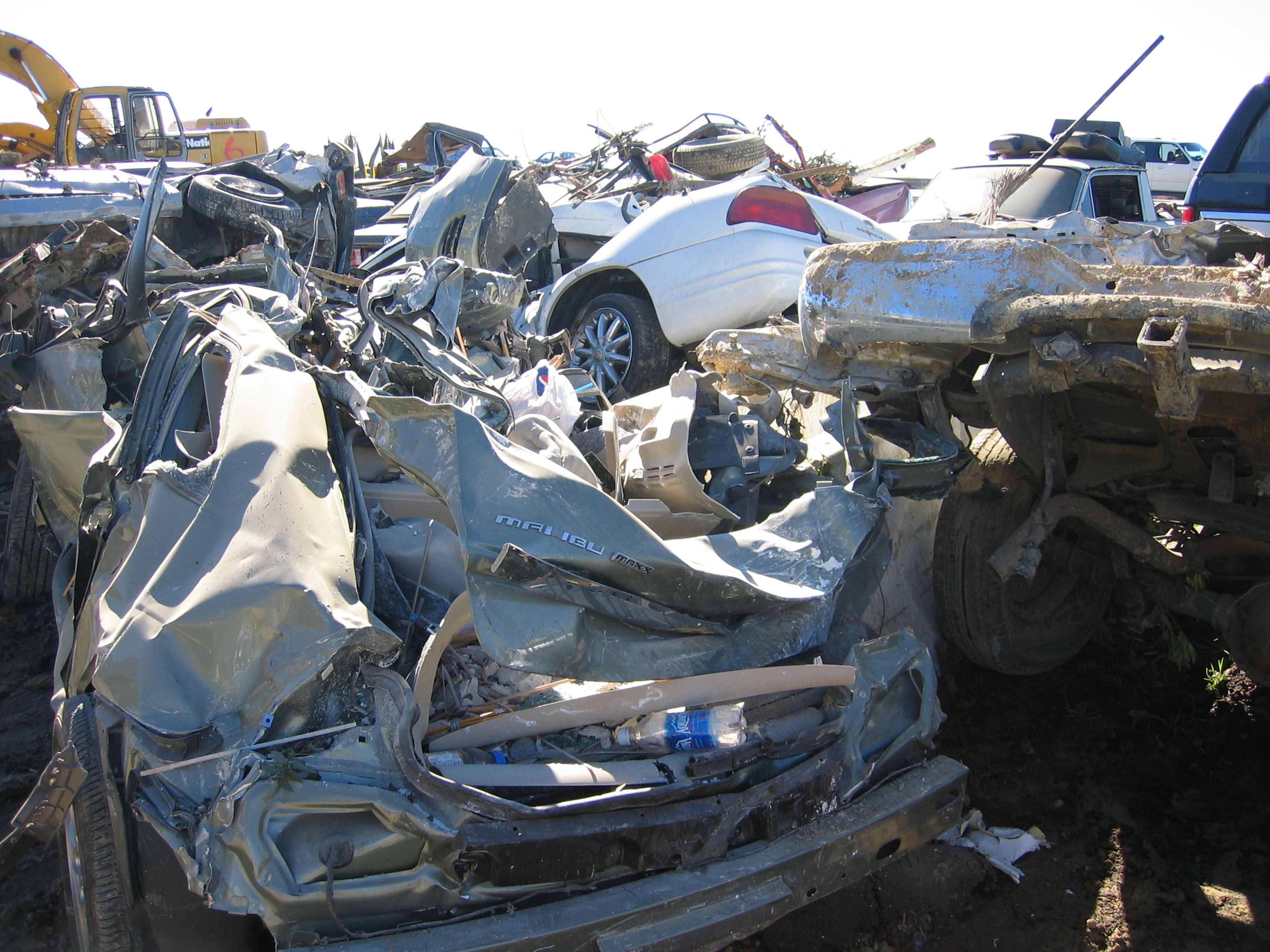 La Conchita, CA, January 15, 2005 -- Damaged and destroyed cars line the side of the road in La Conchita, California, where winter storms caused fatal landslides that damaged private property and roads. Photo by John Shea / FEMA News Photo